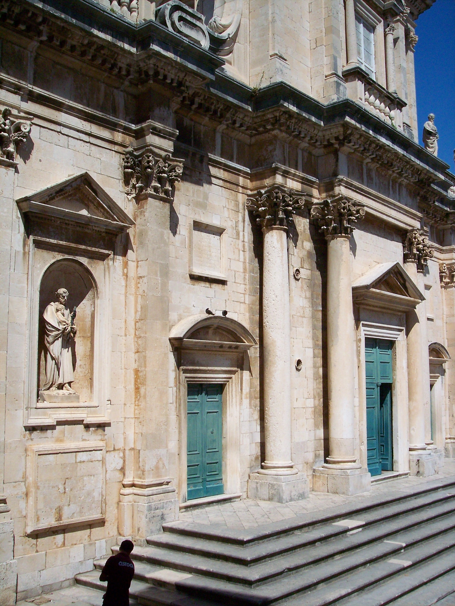 Cathedral of the Assumption of the Virgin Mary (Velika Gospa) in Dubrovnik (Croatia)